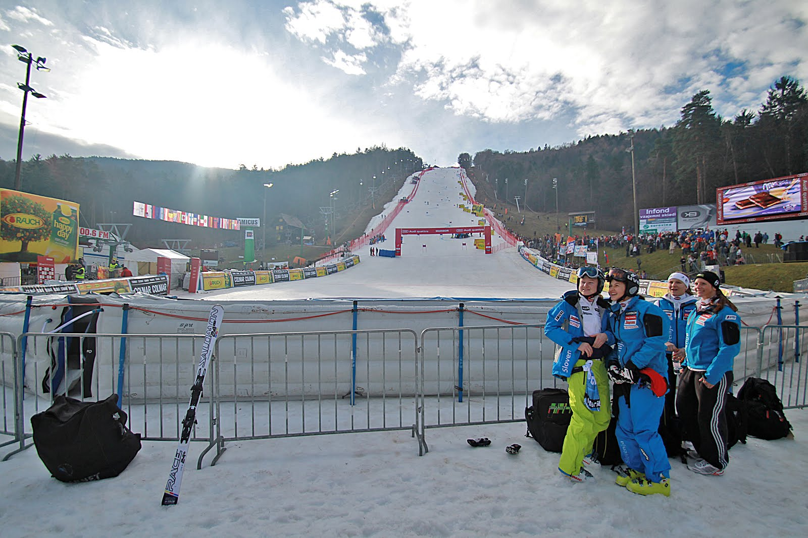 Zlata lisica 2011